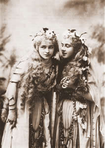 Emmie Owen and Florence Perry in Utopia, Limited, 1893